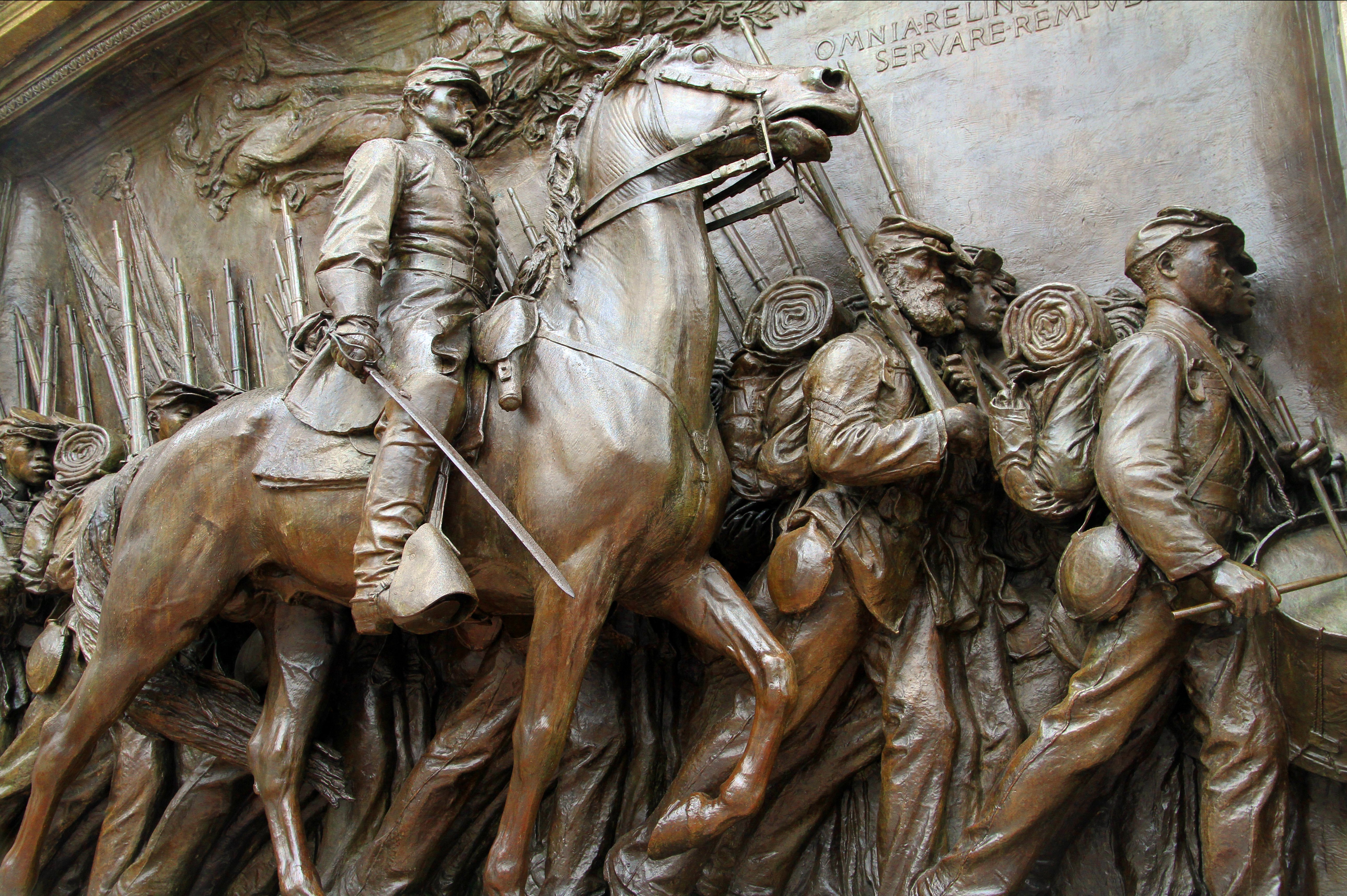 54th Regiment Memorial